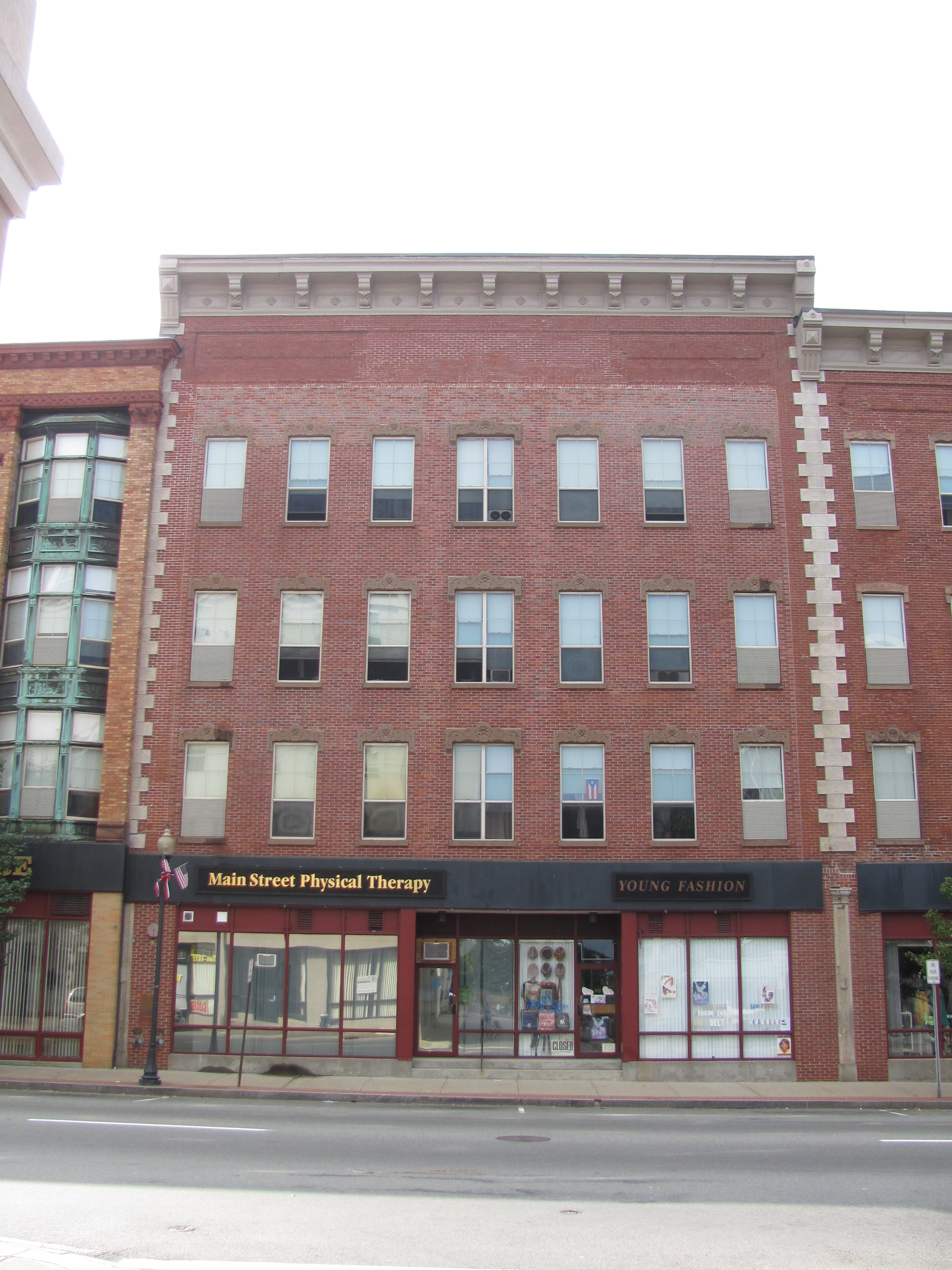 Howard Block, 93-95 Main Street, Brockton Massachusetts